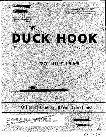 The cover page to the Navy's Duck Hook operational plan.